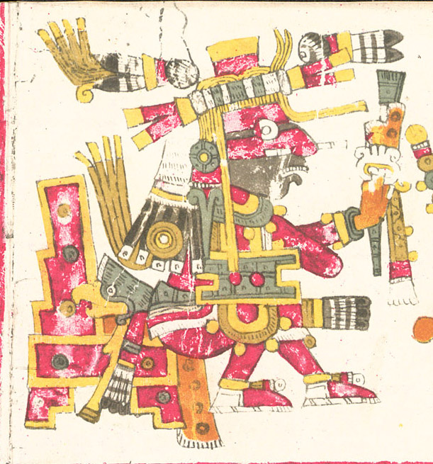 A drawing of Xiuhtecuhtli, one of the deities described in the Codex Borgia